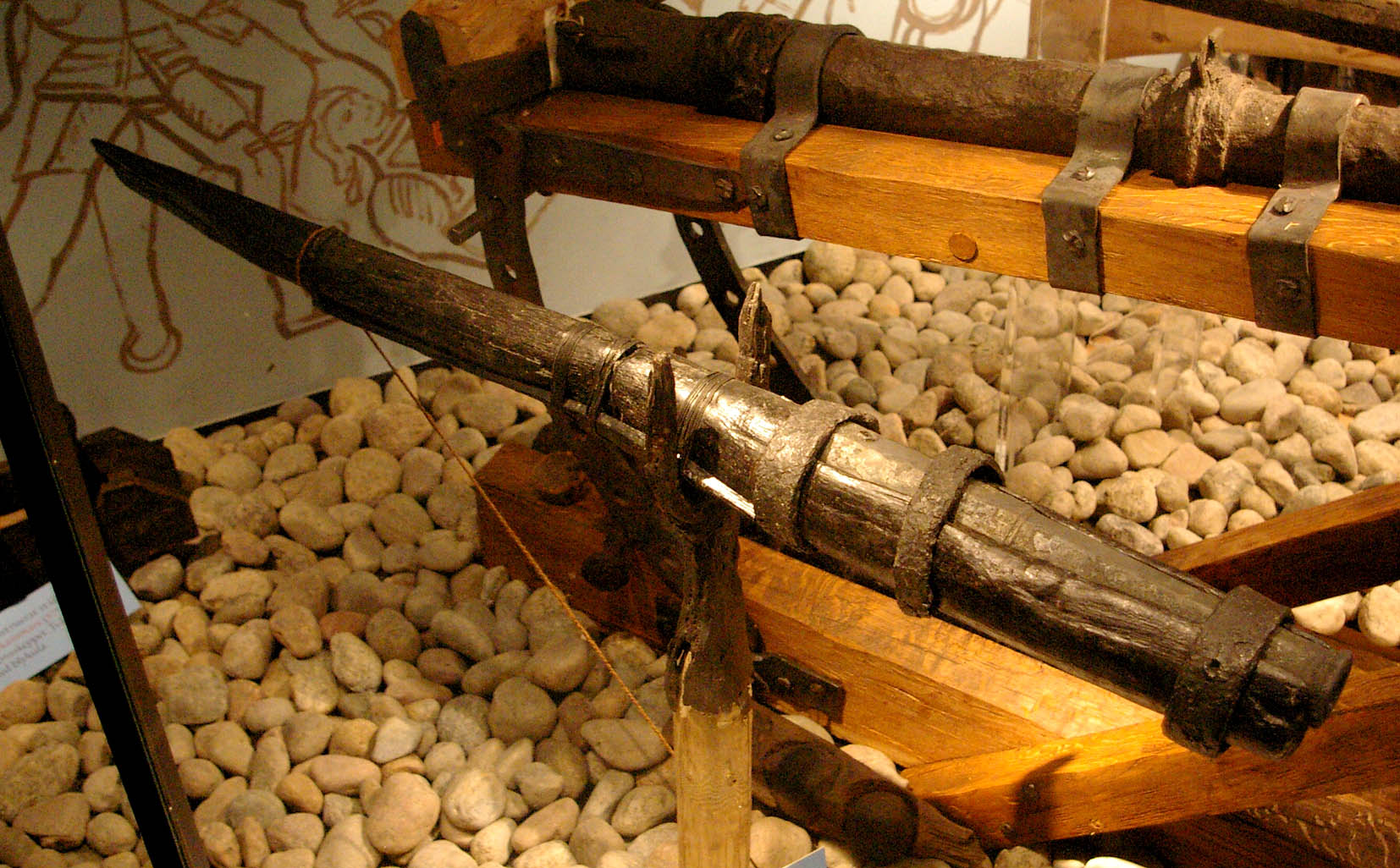 Reconstracted medieval cannon.